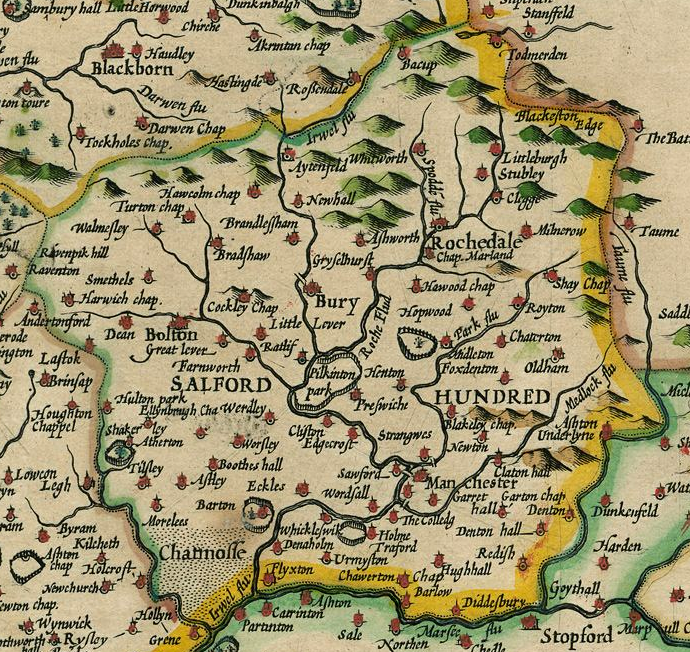 The Hundred of Salford: John Speed's map of Lancashire is one of the earliest and shows towns and villages but no highways.